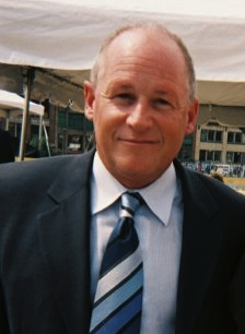 FSN Pittsburgh & Penguins play-by-play man Paul Steigerwald at the groundbreaking of the Consol Energy Center